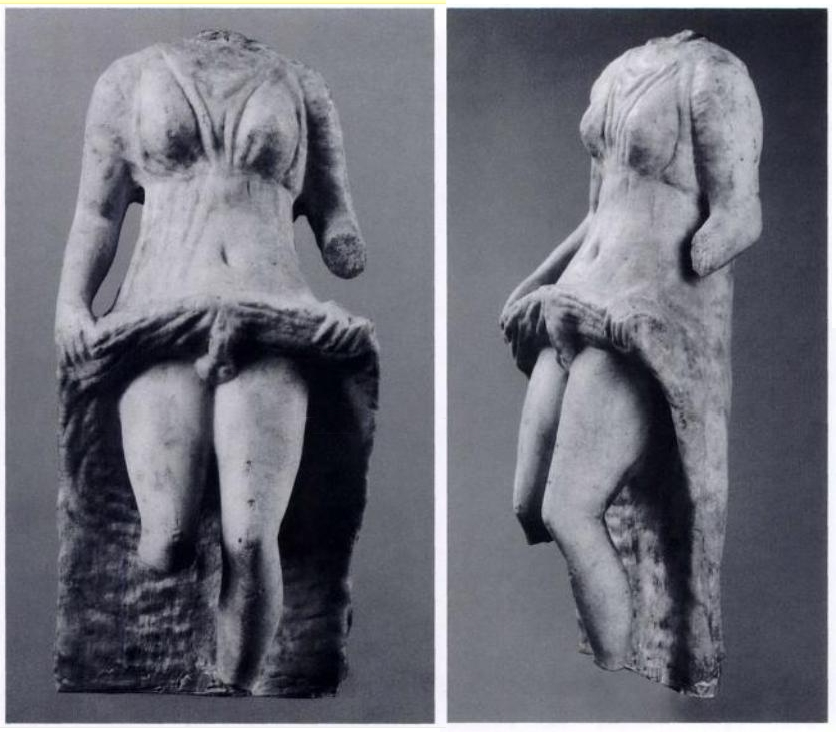 The statuette is said to be from Erythrai, Asia Minor. Late Hellenistic to Early Imperial period. White marble.